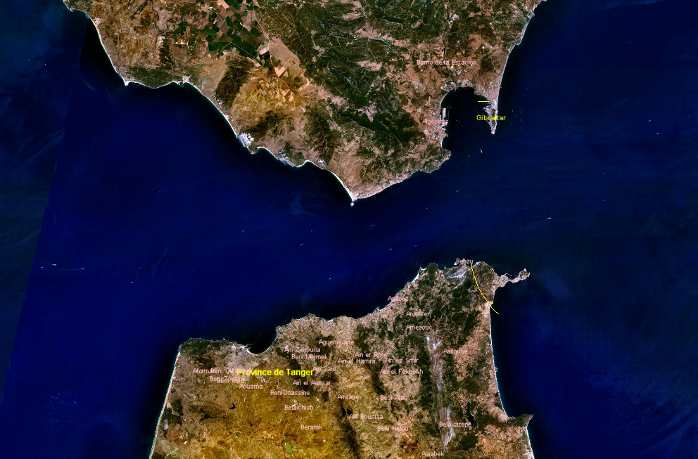 Straits of gibraltar. Satellite view.